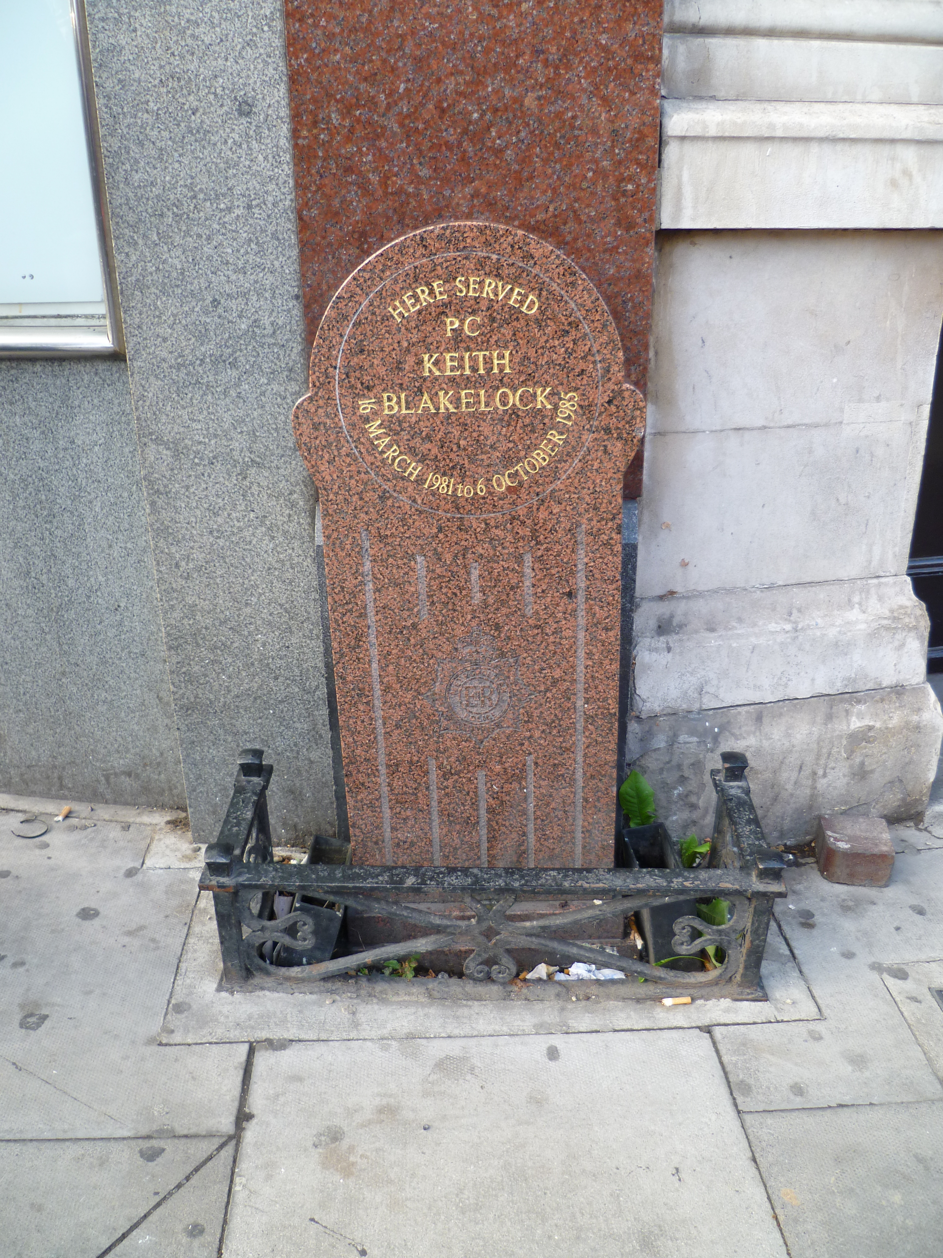 London